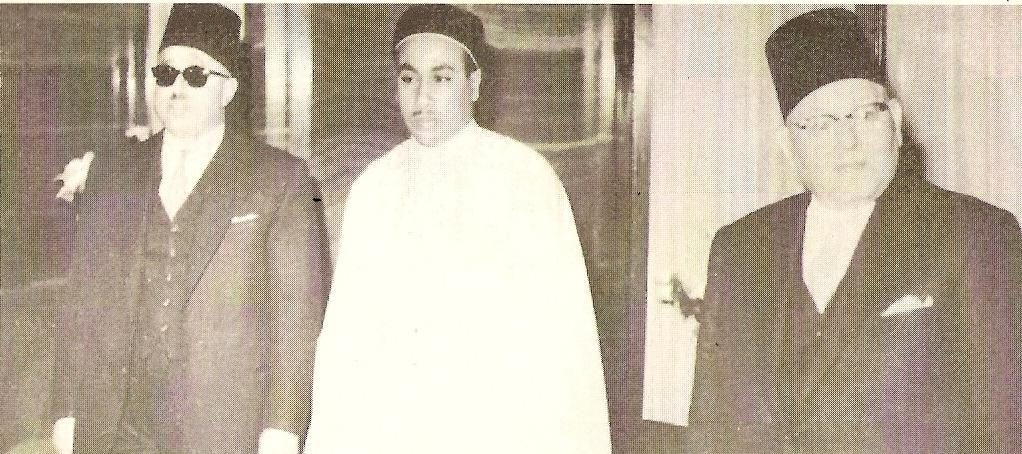 From left to right Abdul Majid Kubar; prime minister of Libya, Crown Prince Hassan ar Reda of the Kingdom of Libya, and et Taher Bakeer, Governor of Tripolitania.